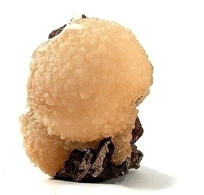 Thomsonite-Ca Locality: Aurangabad District, Maharashtra, India (Locality at ) 8.3 x 6.6 x 5.6 cm